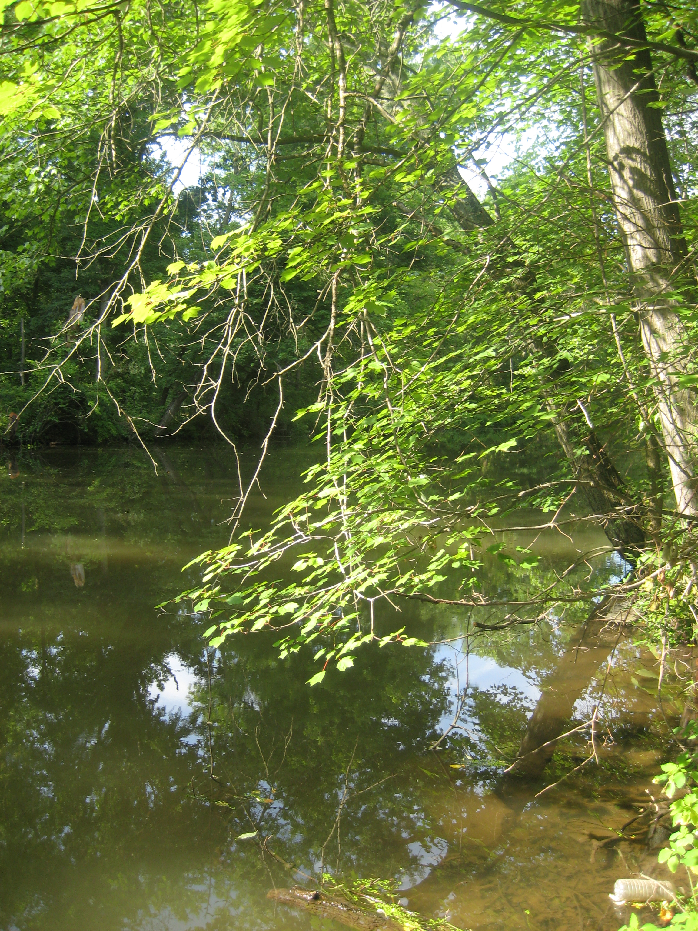 Tree on the D&R Canal.